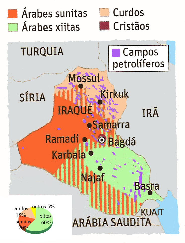 Ethnic-religious composition of Iraq